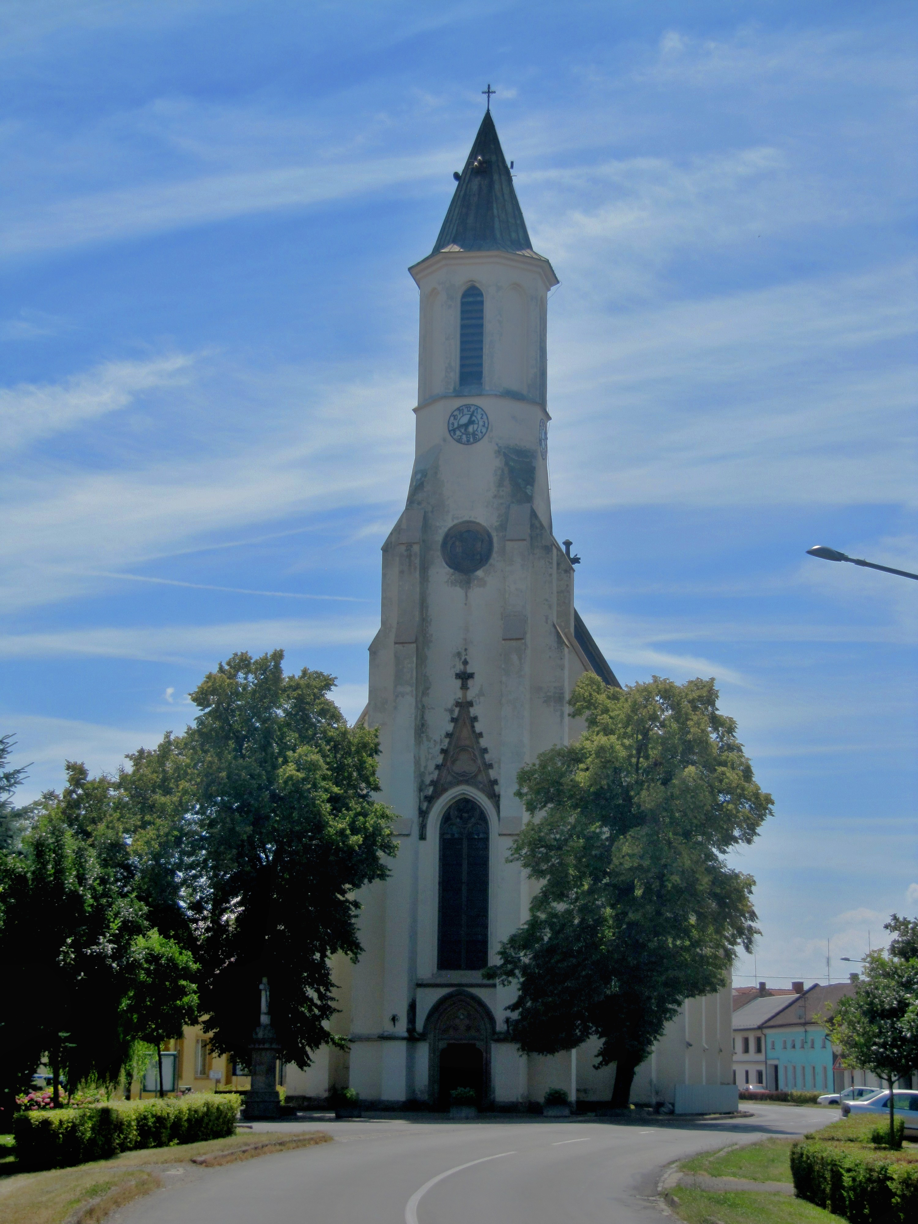 Bochoř, Přerov District, Czech Republic. Church of Saint Florian.